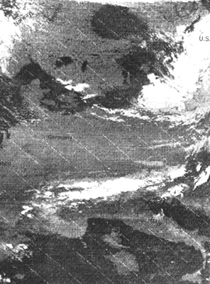 Night (infrared) image of Europe taken by Nimbus 1 satellite